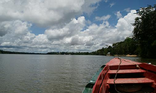 Commewijne river